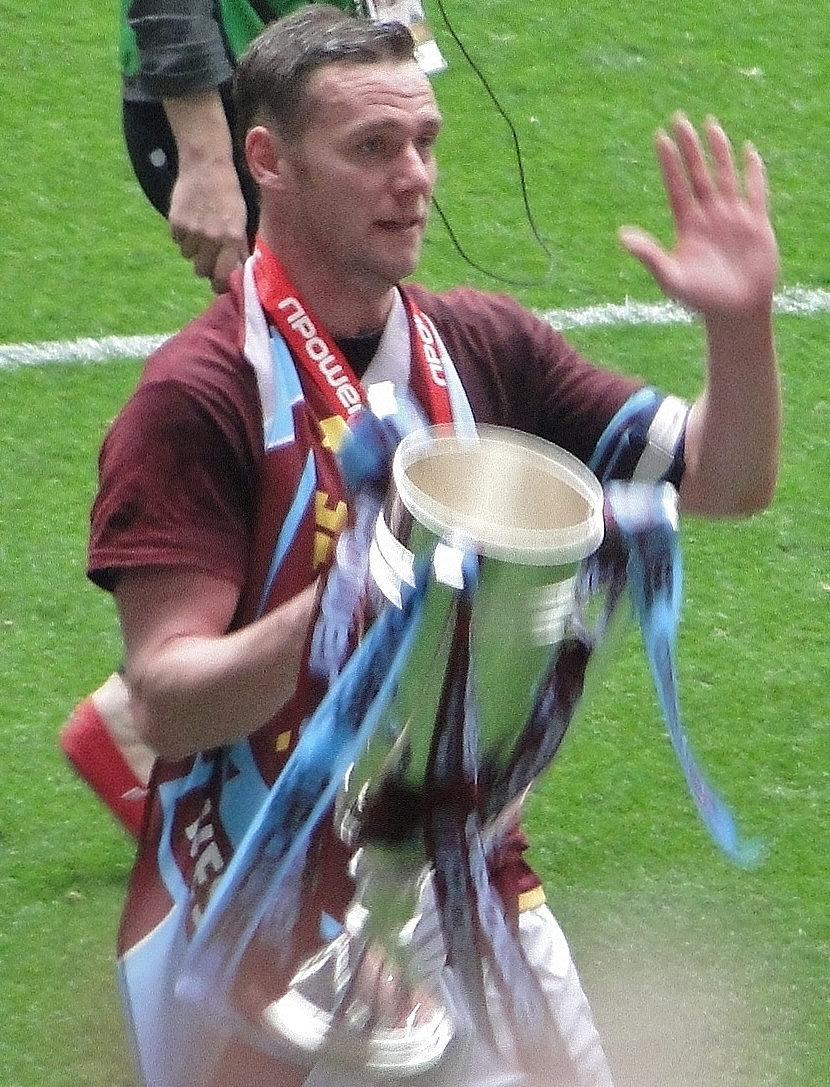 West Ham United captain, Kevin Nolan after the Football League Championship play-off final at Wembley May 2012